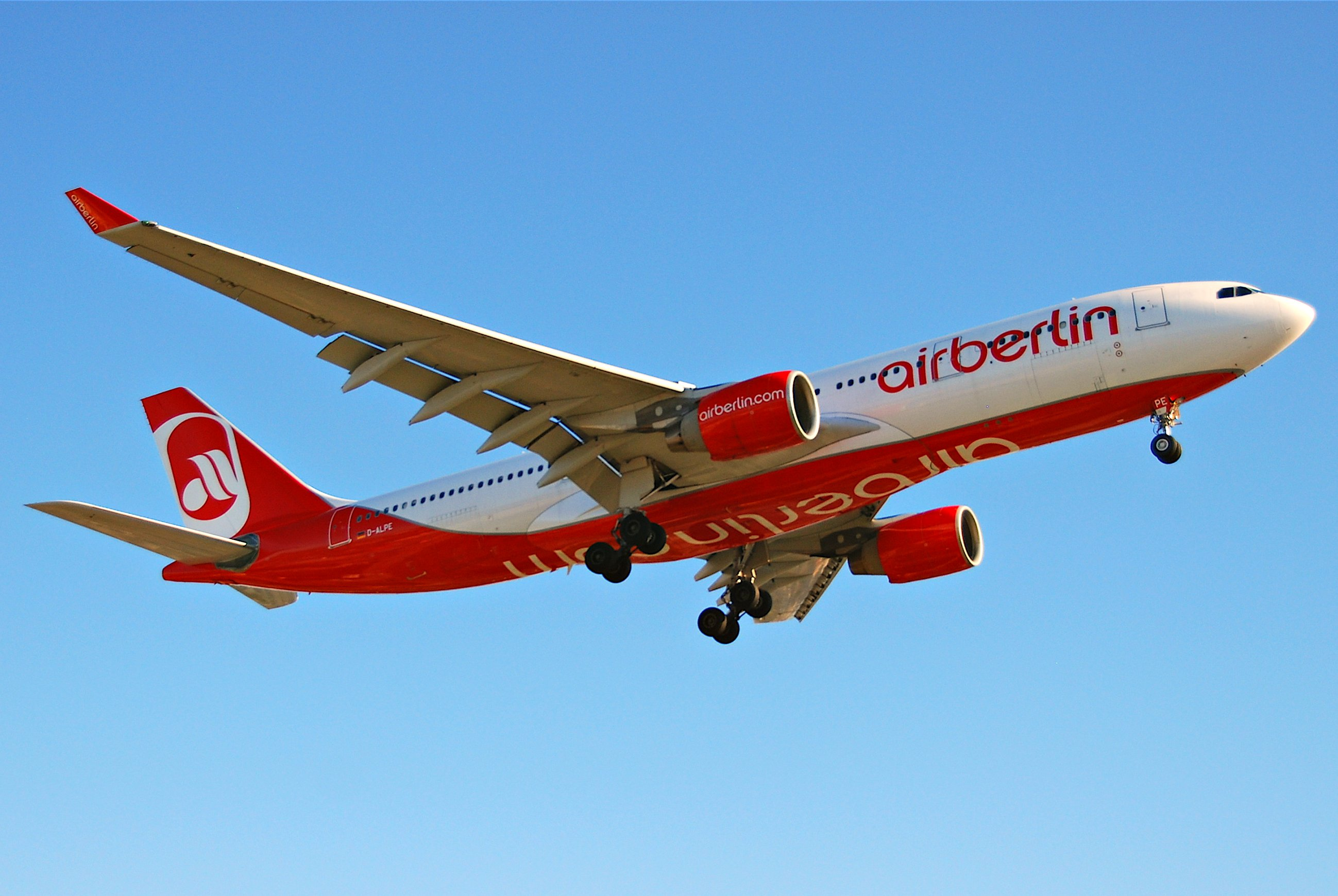 Air Berlin Airbus A330-200; D-ALPE@LAX:08.10.2011/620ee